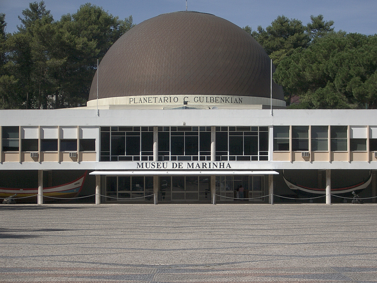 Planetário Calouste Gulbenkian, in Lisbon, part of the Museum of Navy, Praça do Império, Lisboa, Portugal. The dome is about 25m diameter.